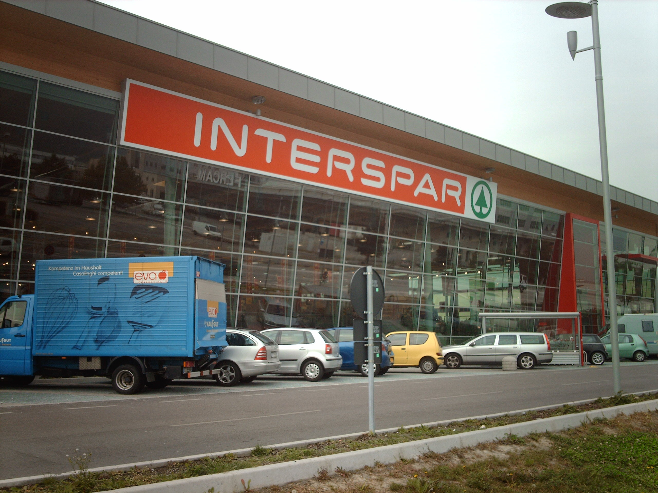 Interspar supermarket in Bolzano/Bozen, South Tyrol, Italy